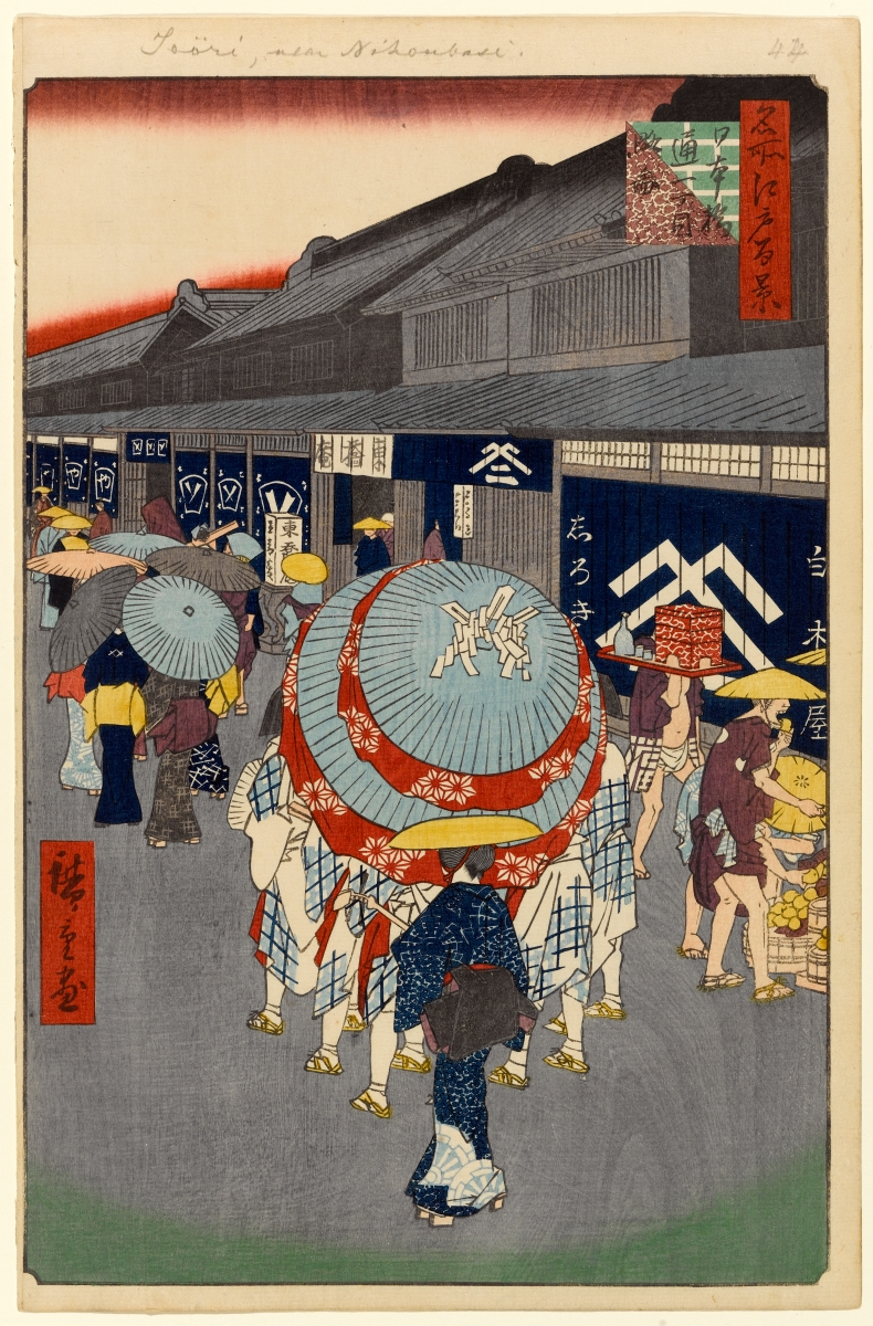 Part of the series One Hundred Famous Views of Edo, no. 044, part 2: Summer.